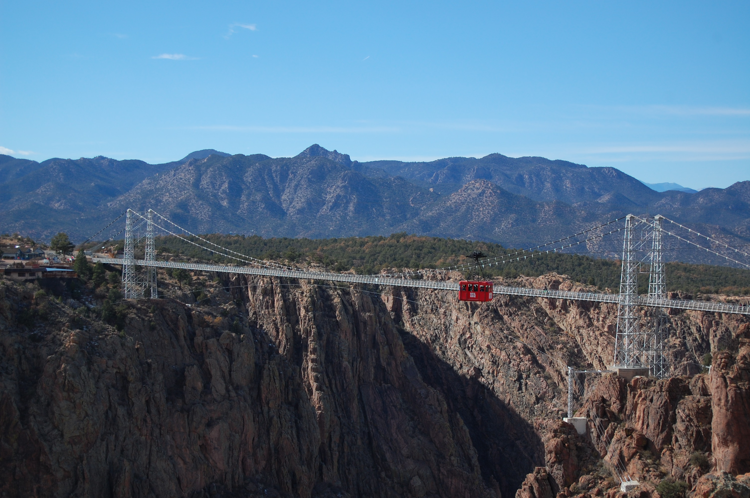 Aerial Tram on October 28, 2012 before the fire of June 2013